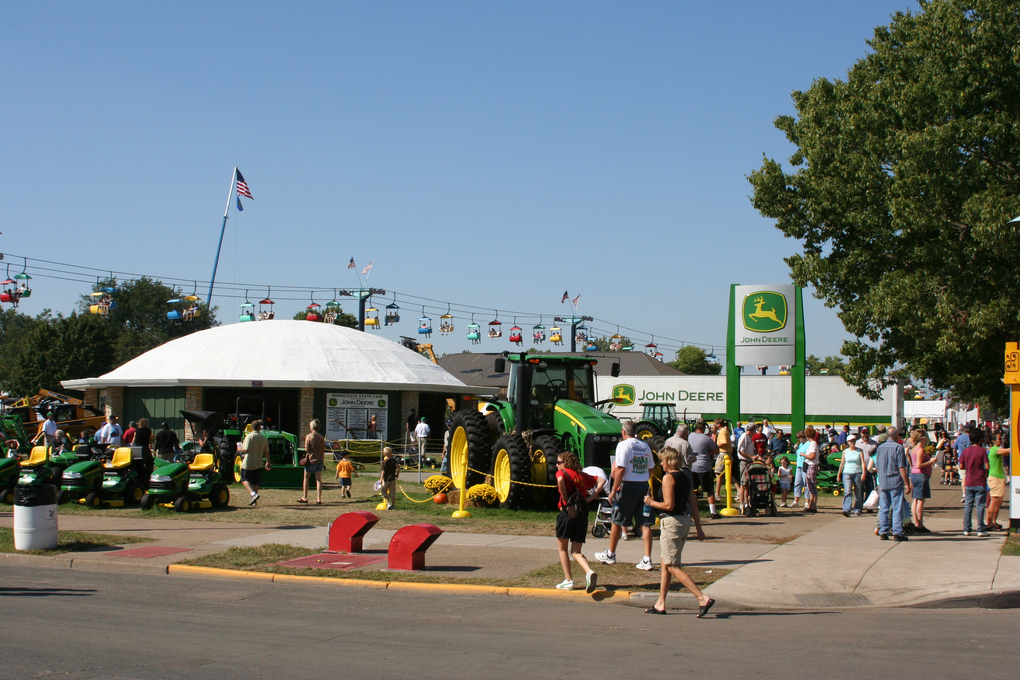 John Deere exhibit on "machinery hill" at the Minnesota State Fair